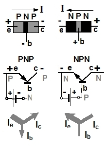 PNP and NPN transistor polarisation